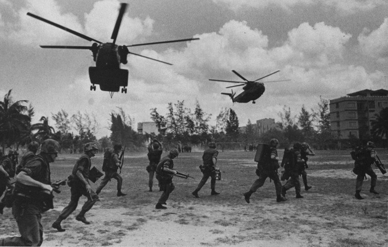 U.S. Marines of BLT 2/4 deploy at "LZ Hotel". Sikorsky CH-53 Sea Stallions of Heavy Marine Helicopter Squadron HMH-463 from the U.S. Navy aircraft carrier USS Hancock (CVA-19) are overhead.